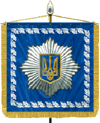 Standard of the Minister of Internal Affairs of Ukraine